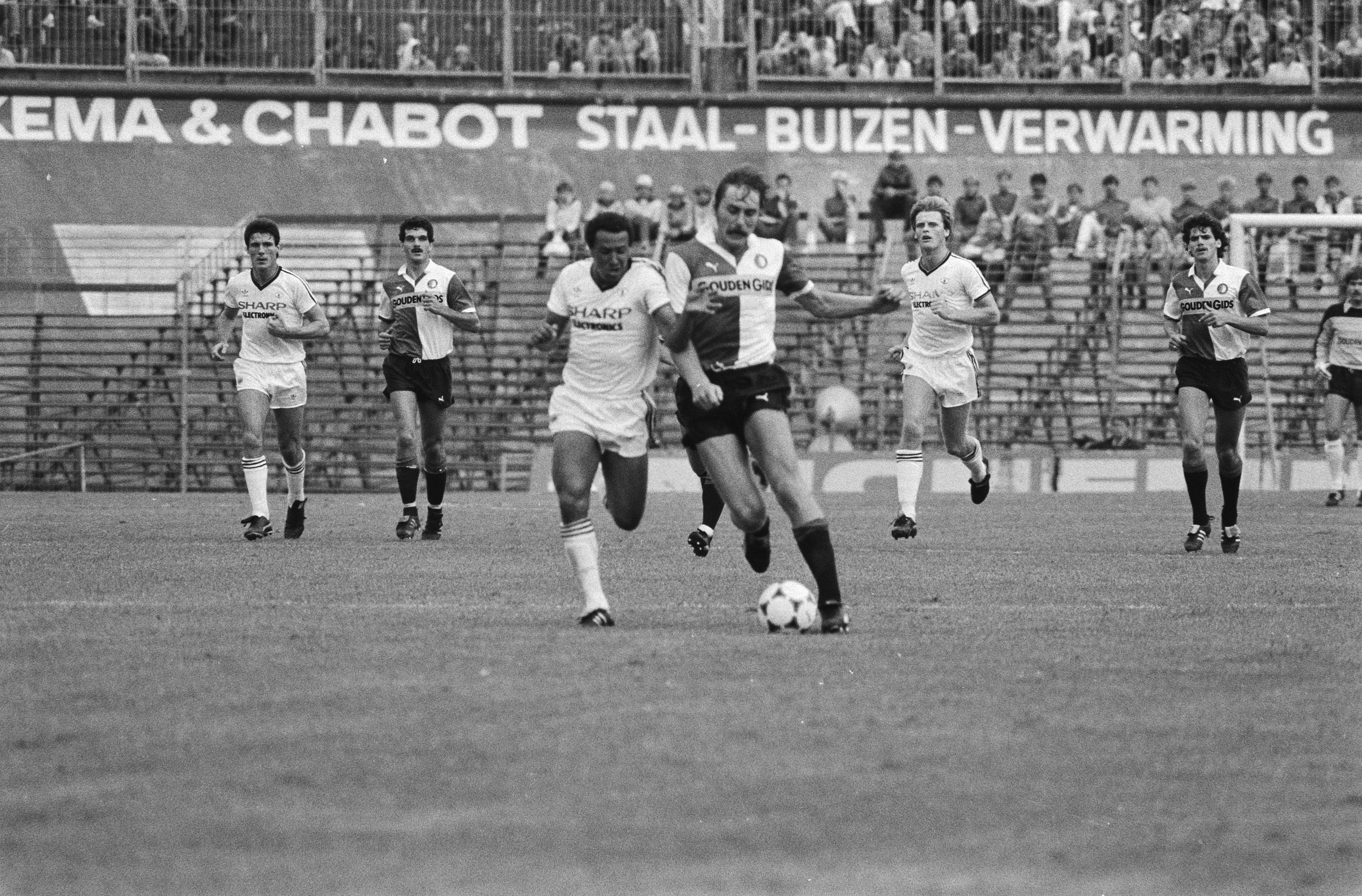 Tournament Amsterdam 1983. (Manchester United) & (Feyenoord). 12 August 1983. Remi Moses. Frank Stapleton. Gordon McQueen.